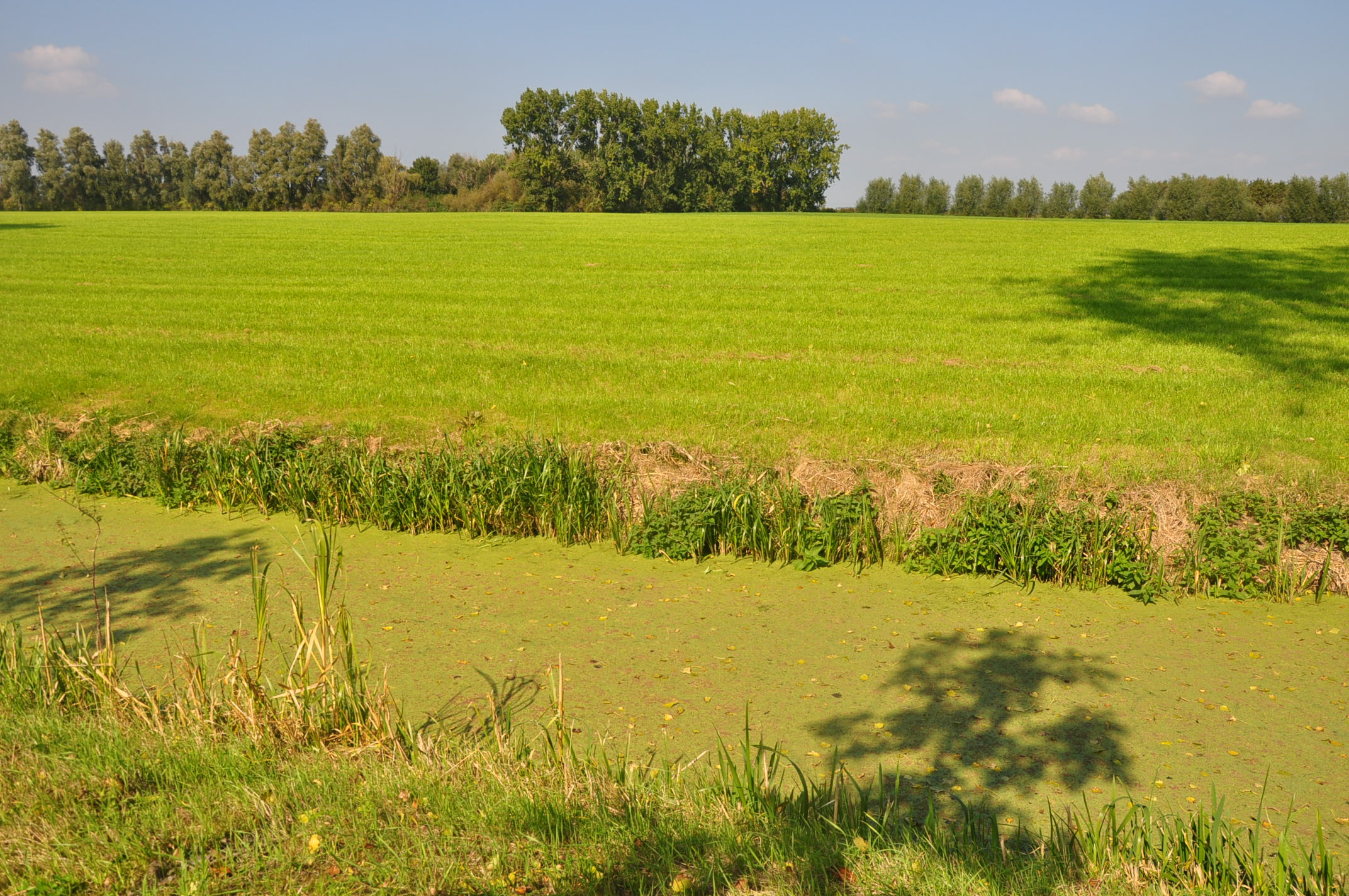 The Roeleveen polder area in the municipality Zoetermeer (Province South Holland, Netherlands) is part of the "Polder of Nootdorp". This area will be converted into a golf course according to Zoetermeer's land-use plan.